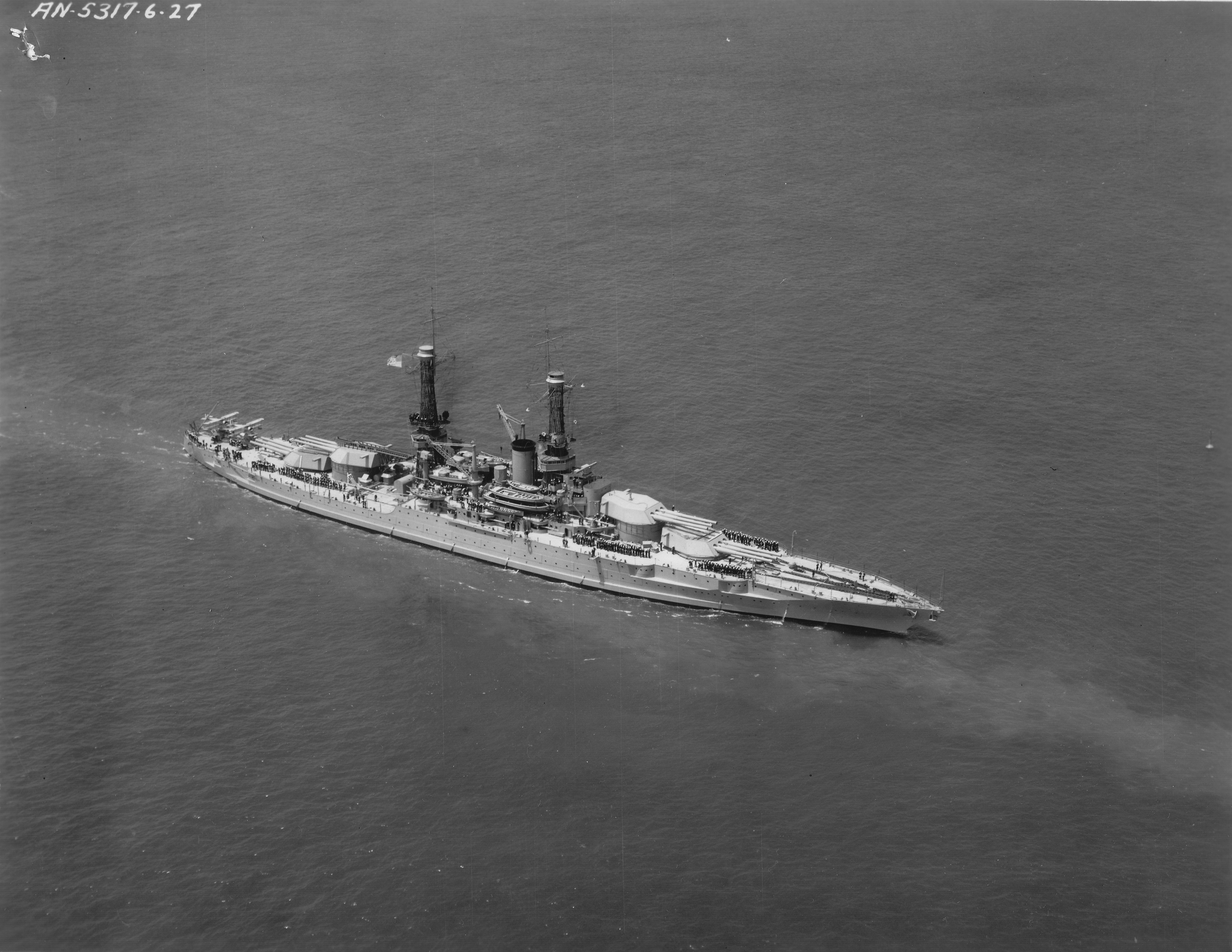 Aerial view of the USS Mississippi during a presidential naval review in Hampton Roads, Virginia, June 4, 1927.